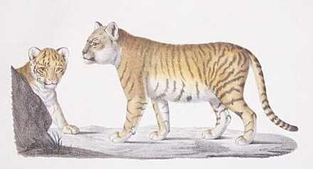 A colour plate of the offspring of lion and tiger.